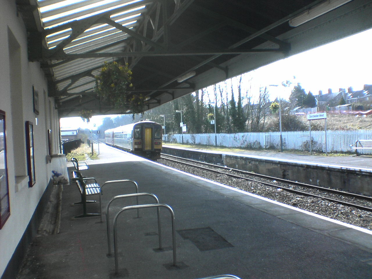 A pair of Class 153s leave Dorchester West railway station with a service to Weymouth.